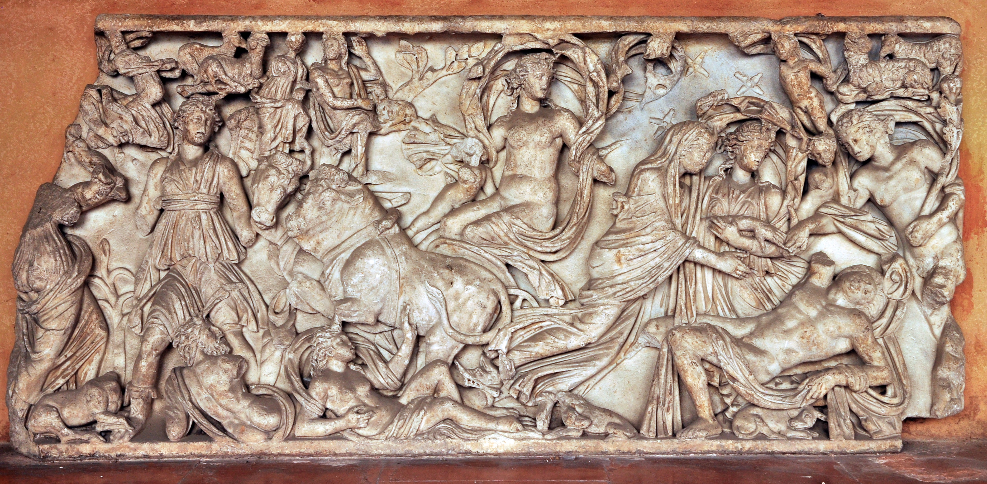 Roman sarcophagus showing Selene approaching Endymion. Ca. 200-200 AD. San Paolo fuori le mura, Rome. Photo by Mont Allen.